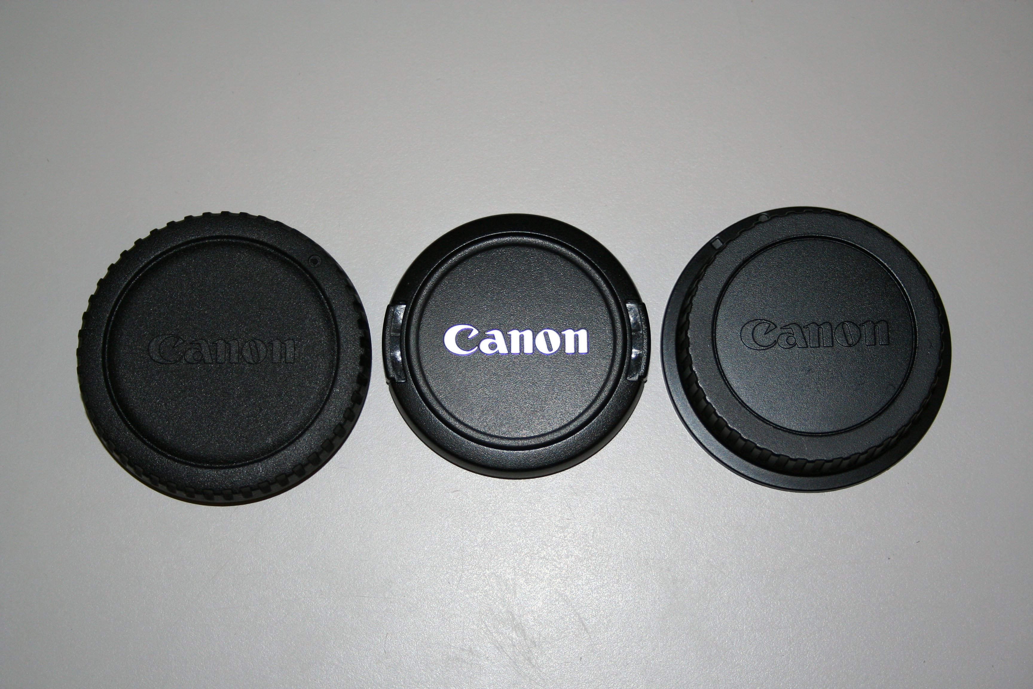 The front and rear lens covers for a Canon EF-S 18-55mm f/3.5-5.6 USM lens. From right to left: The rear lens cover, the front lens cover (58mm in diameter), and the body cover for the Canon EF/EF-S mount. The front lens cover connects by two plastic tension causing pieces that push outward to the inside of the lens filter threads.